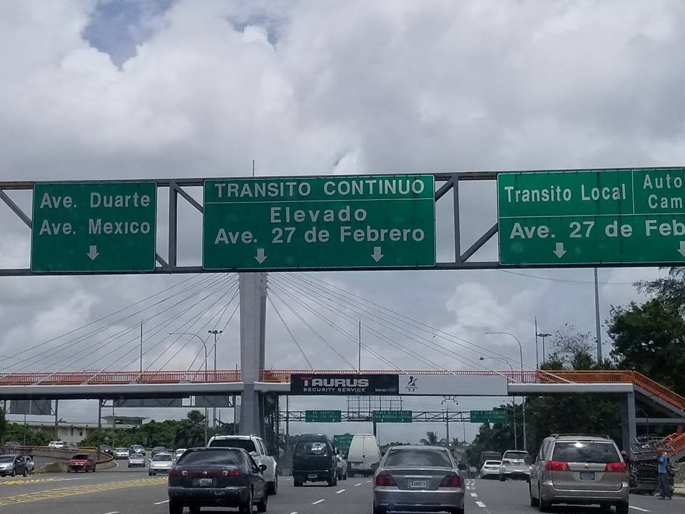 DR-3 Westbound after crossing the Juan Bosch Bridge and entering the National District Area.